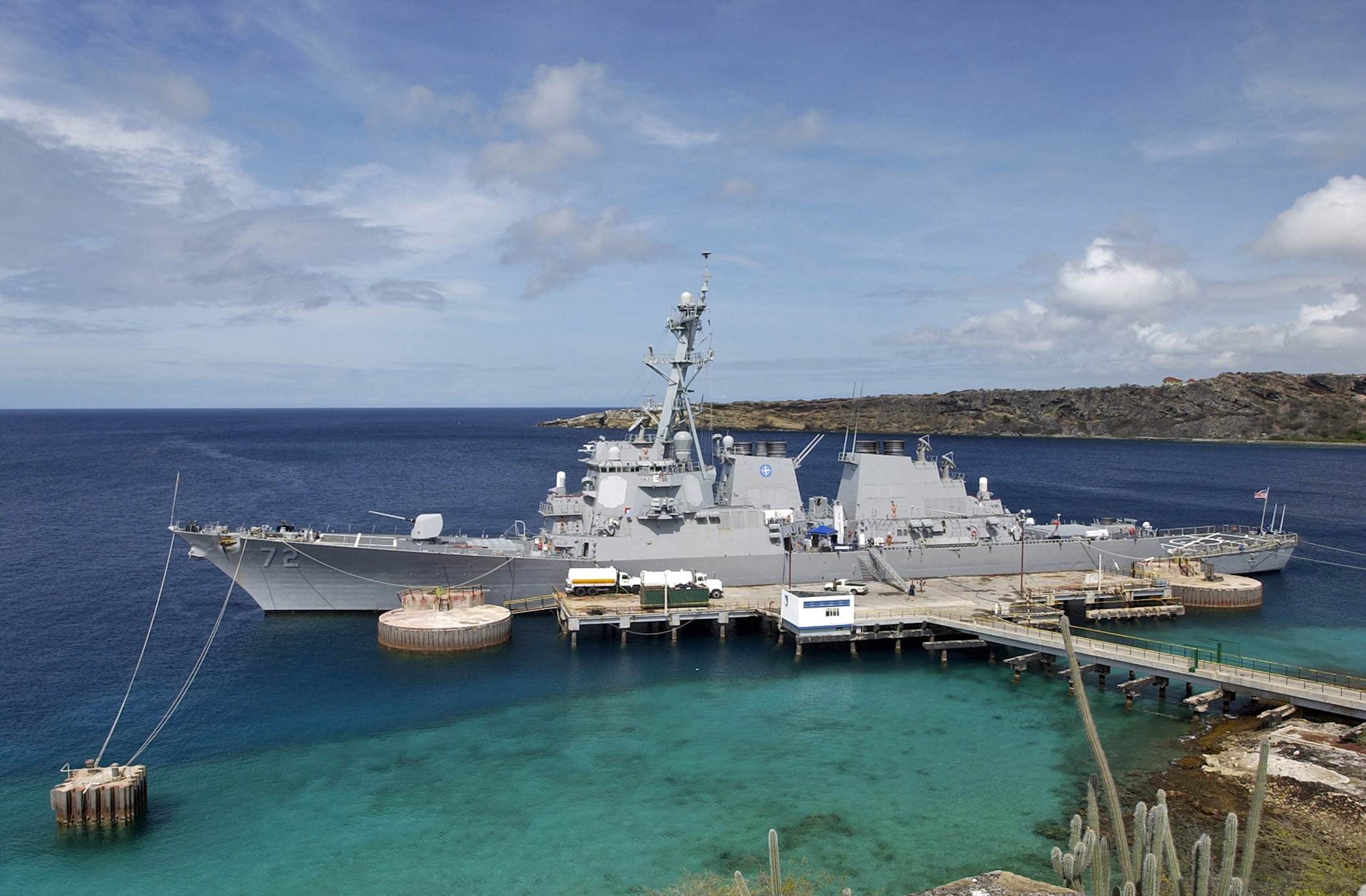 CURACAO, Netherlands Antilles (April 3, 2007) - Guided missile destroyer USS Mahan (DDG 72) is moored pierside in Caracasbaai during her port visit to Curacao. The Mahan visited Curacao with the Standing NATO Maritime Group One (SNMG) 1, one of four joint maritime task forces. U.S. Navy photo by Mass Communication Specialist Seaman Vincent J. Street (RELEASED)